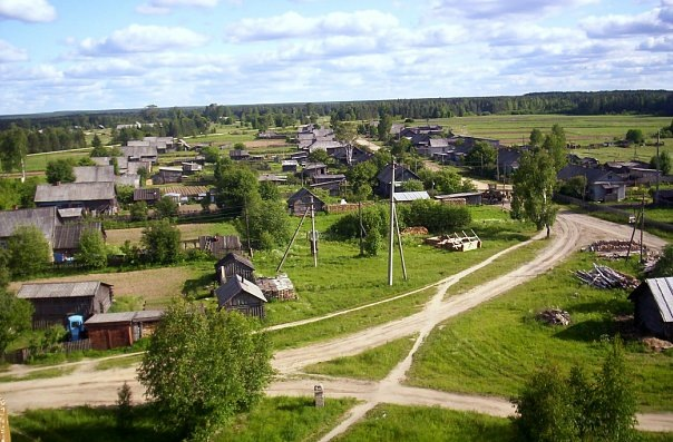 Kujbal